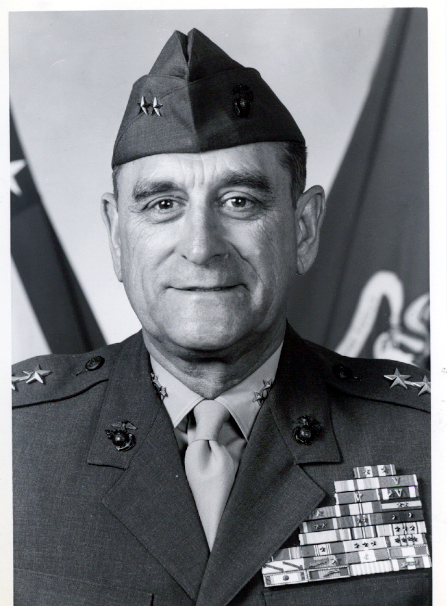 Major General James L. Day, USMC, Medal of Honor recipient; hi-res photo from official Marine Corps website/bio at